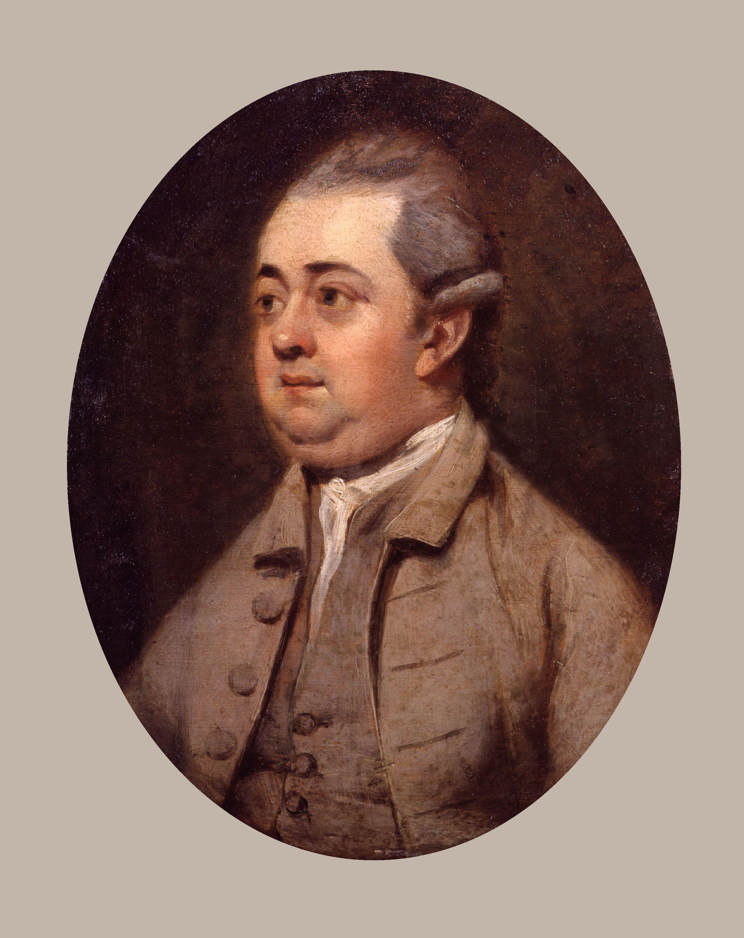 Edward Gibbon, by Henry Walton (died 1813). All images in this batch have been confirmed as author died before 1939 according to the official death date listed by the NPG.